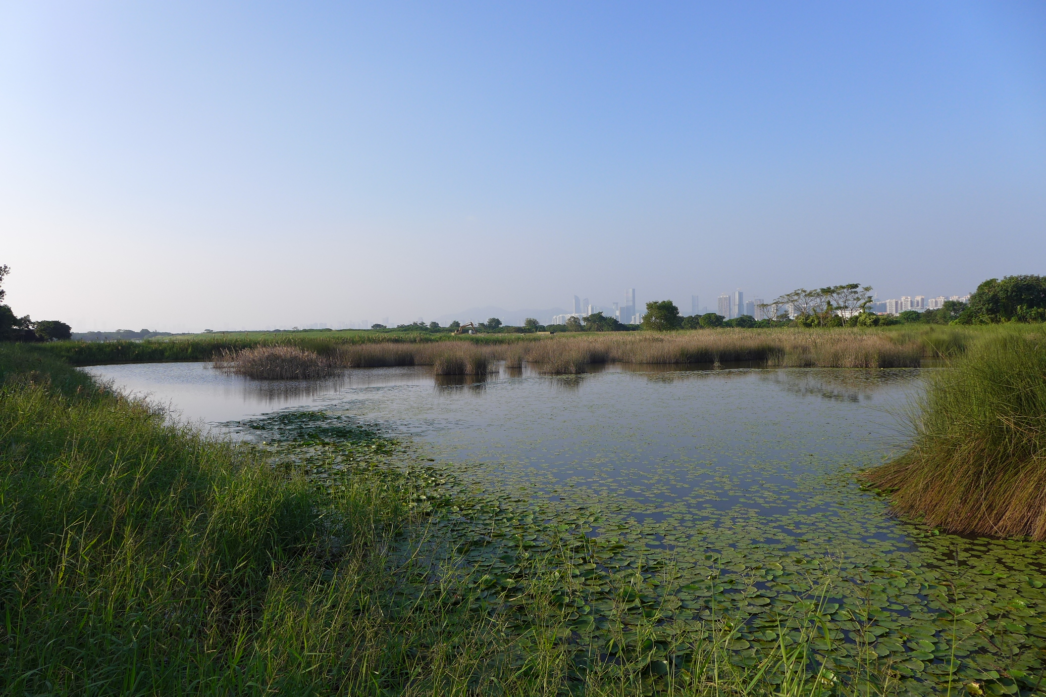 Mai Po Marshes